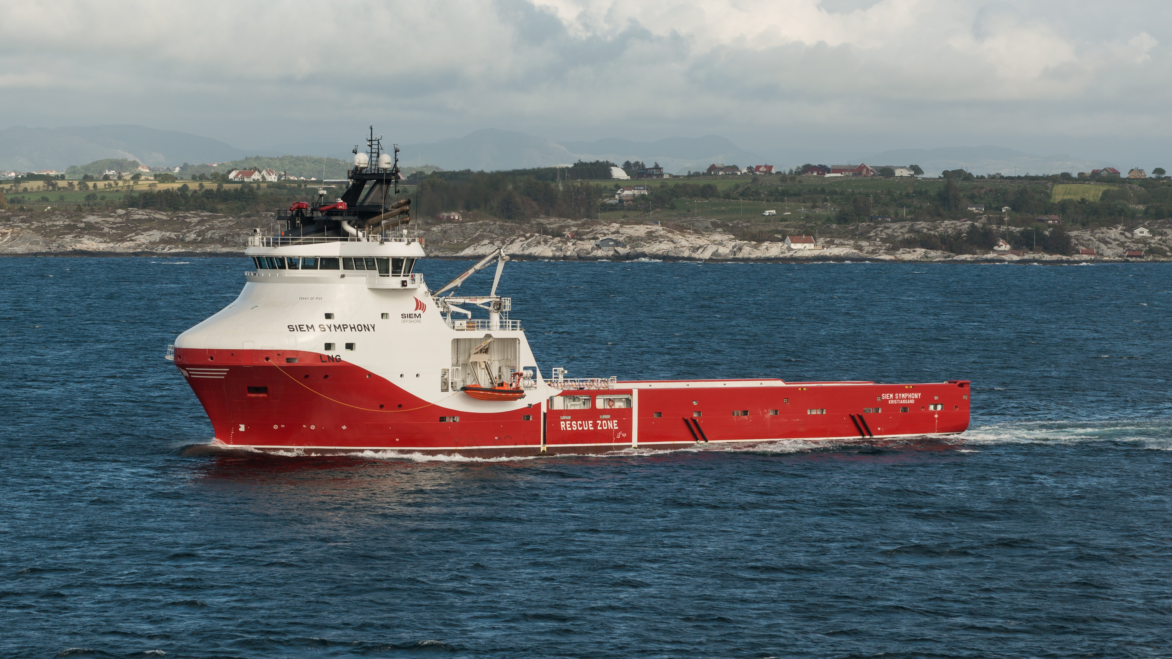 A side view of the platform supply vessel Siem Symphony as seen from a nearby ferry